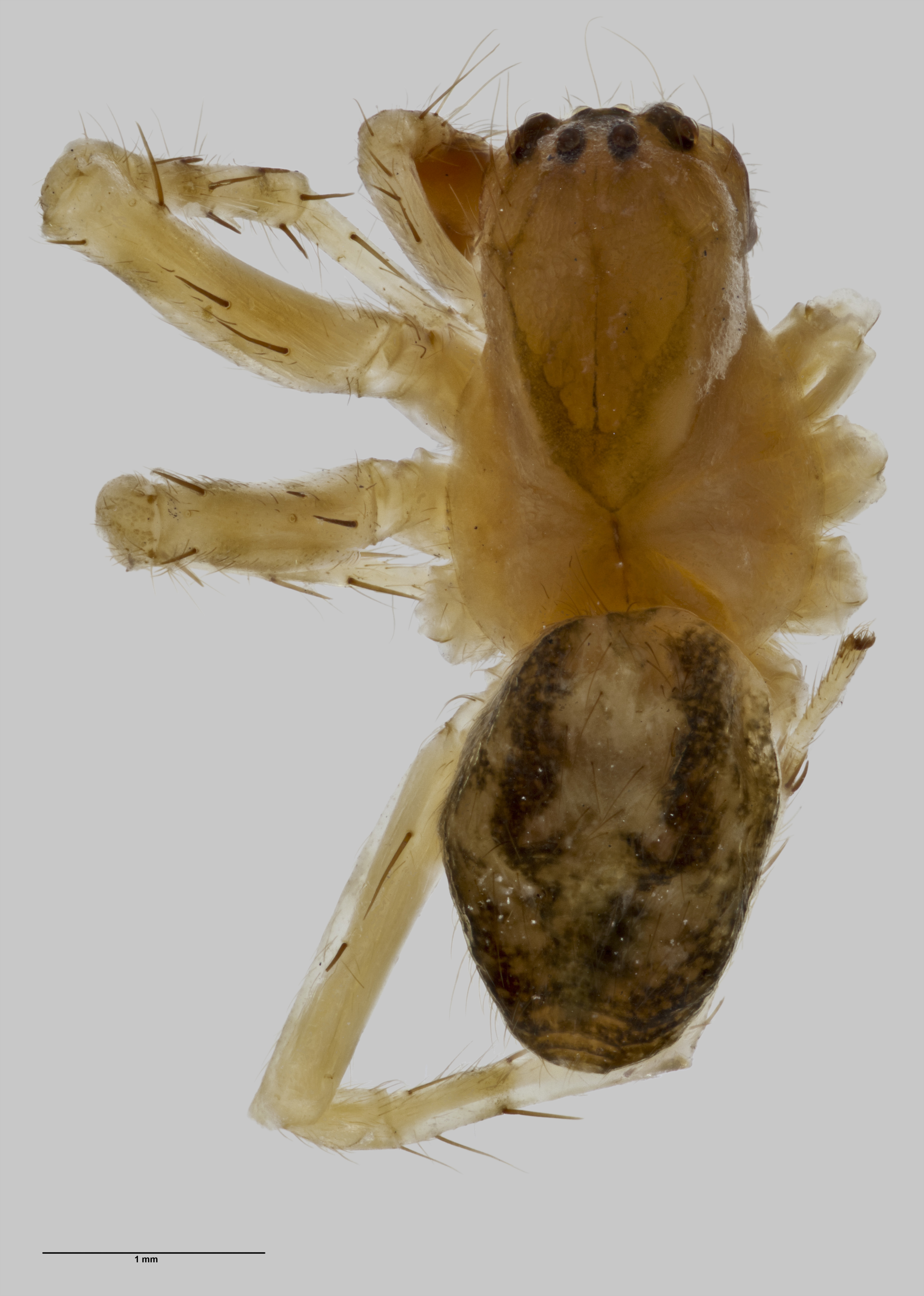 Dorsal view of male holotype specimen of Oramiella wisei AMNZ5063 held at the Auckland War Memorial Museum.